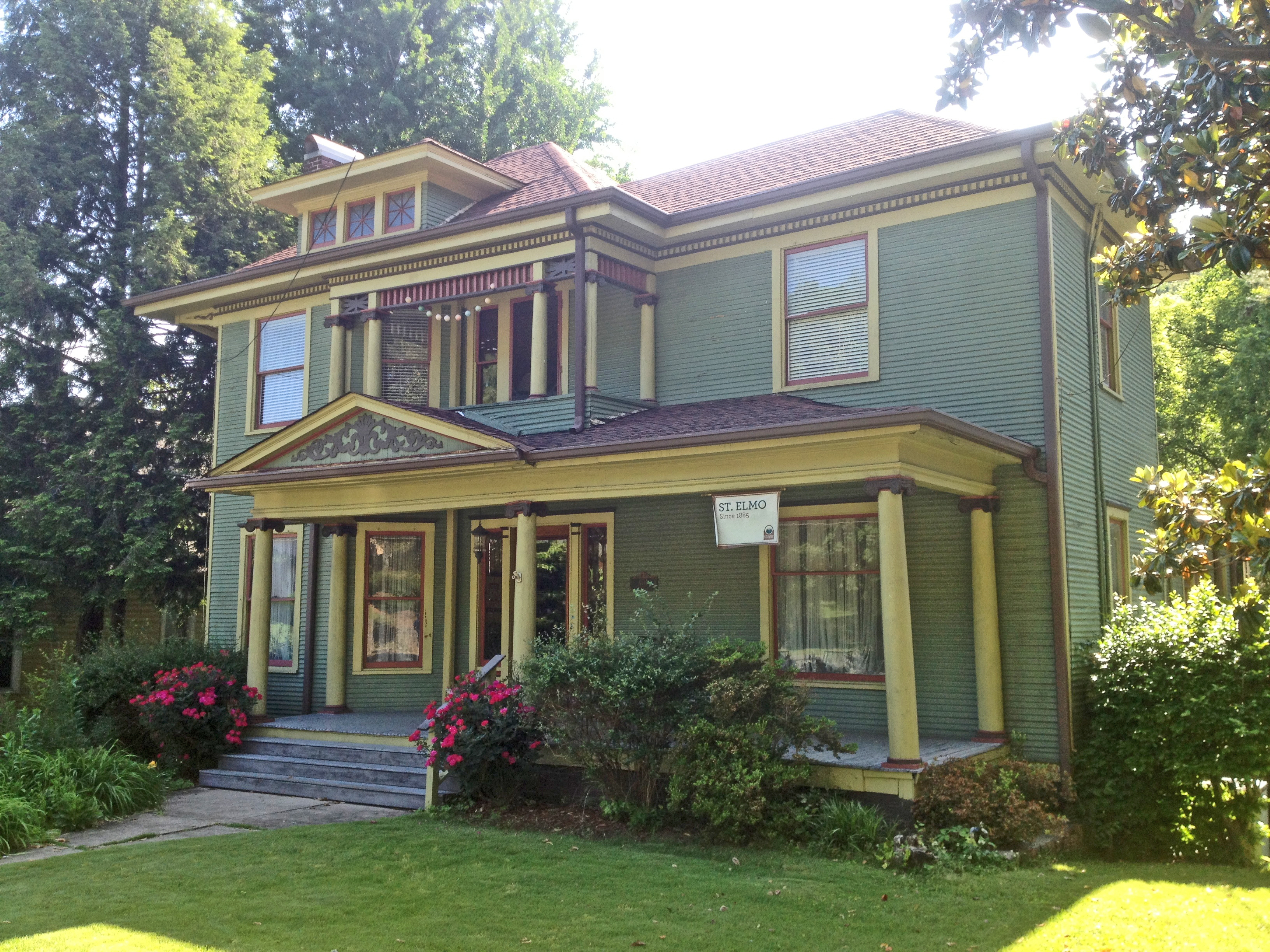 House on St. Elmo Avenue, Chattanooga, Tennessee - George F. Barber, architect.